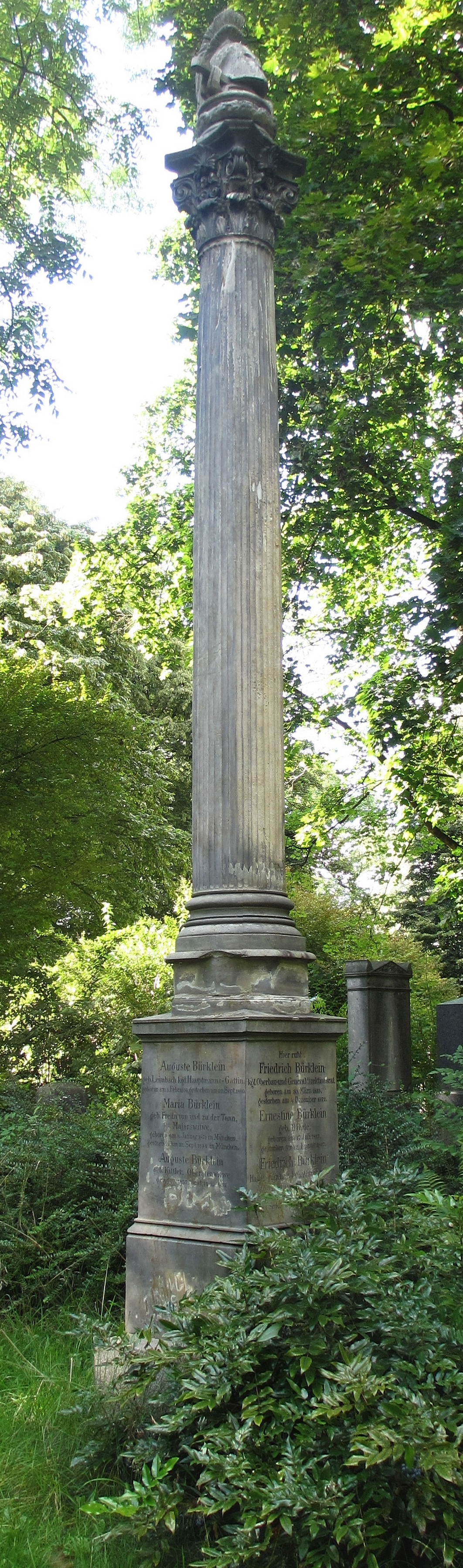 Grave-Buerklein-Friedrich-Alter-Suedl-Friedhof-GF-13-1-7